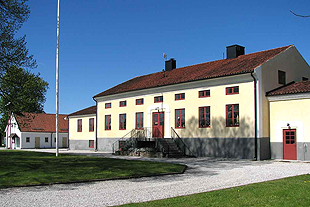 Stenstugu mansion